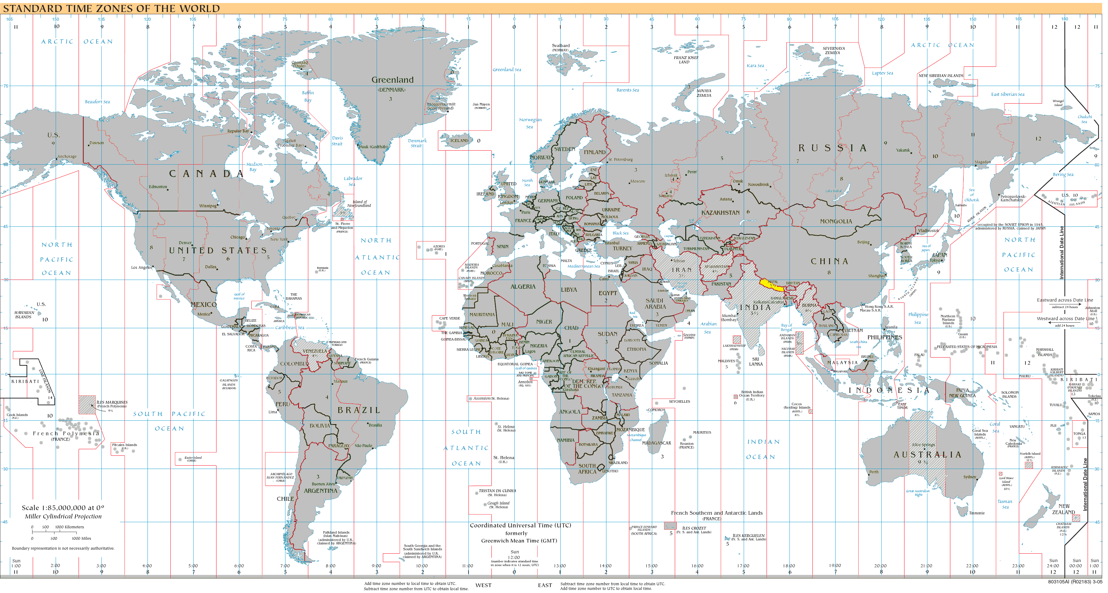 World map of time zones as of June 2008. Highlighting UTC+5:45 Yellow: UTC+5:45 all year round